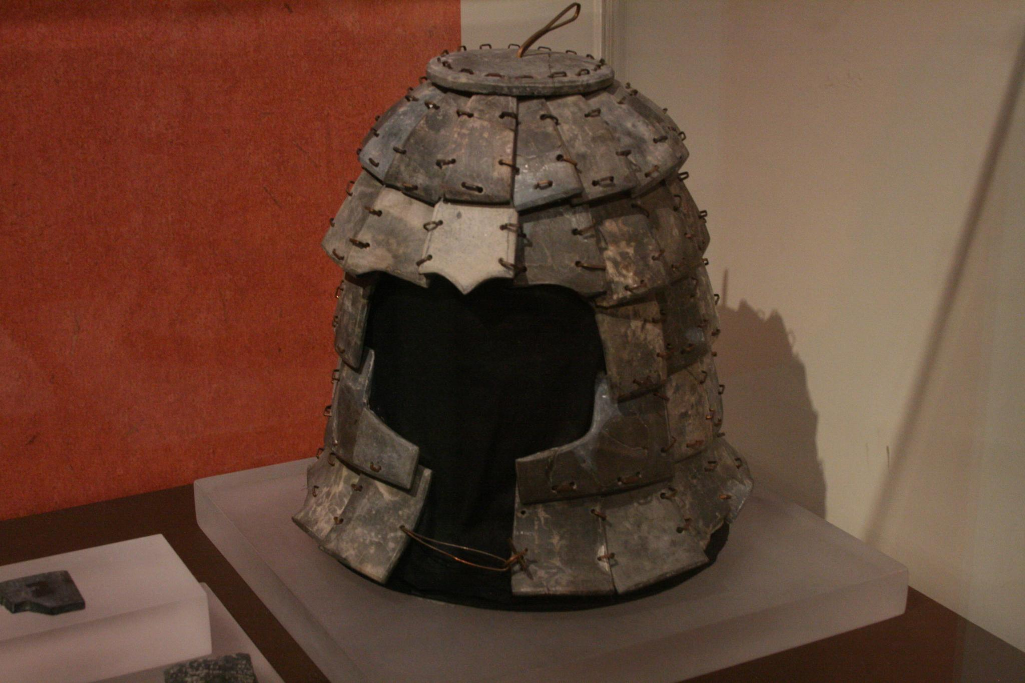 Terra Cotta Warriors: Guardians of China's First Emperor Location: National Geographic Museum Date: Nov. 19, 2009 – March 31, 2010 Website: "Terra Cotta Warriors: Guardians of China's First Emperor" features the largest number of terra cotta figures ever to travel to the United States for a single exhibition. The exhibition showcases 15 terra cotta figures from the tomb of China’s First Emperor, Qin Shihuangdi, who ruled from 221 B.C to 210 B.C., including nine terra cotta warriors, two musicians, a strongman, a court official, a stable attendant and a horse. The exhibition features 100 sets of artifacts in all, including weapons, stone armor, coins, jade ornaments, roof tiles and decorative bricks, and a bronze crane and swan.